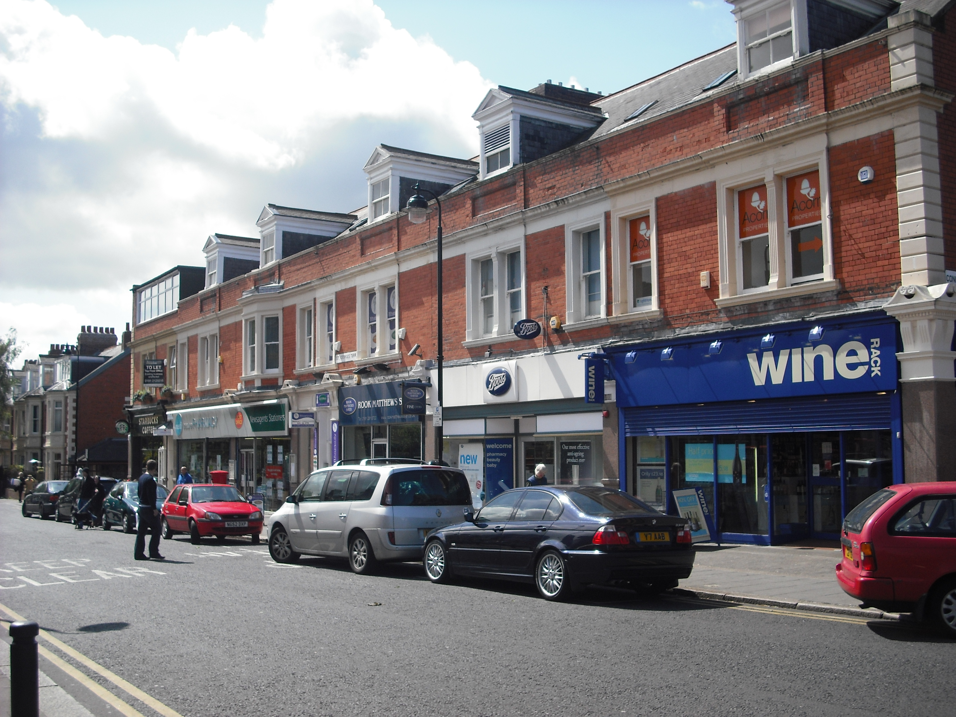 St Georges Terrace in Jesmond, Newcastle upon Tyne